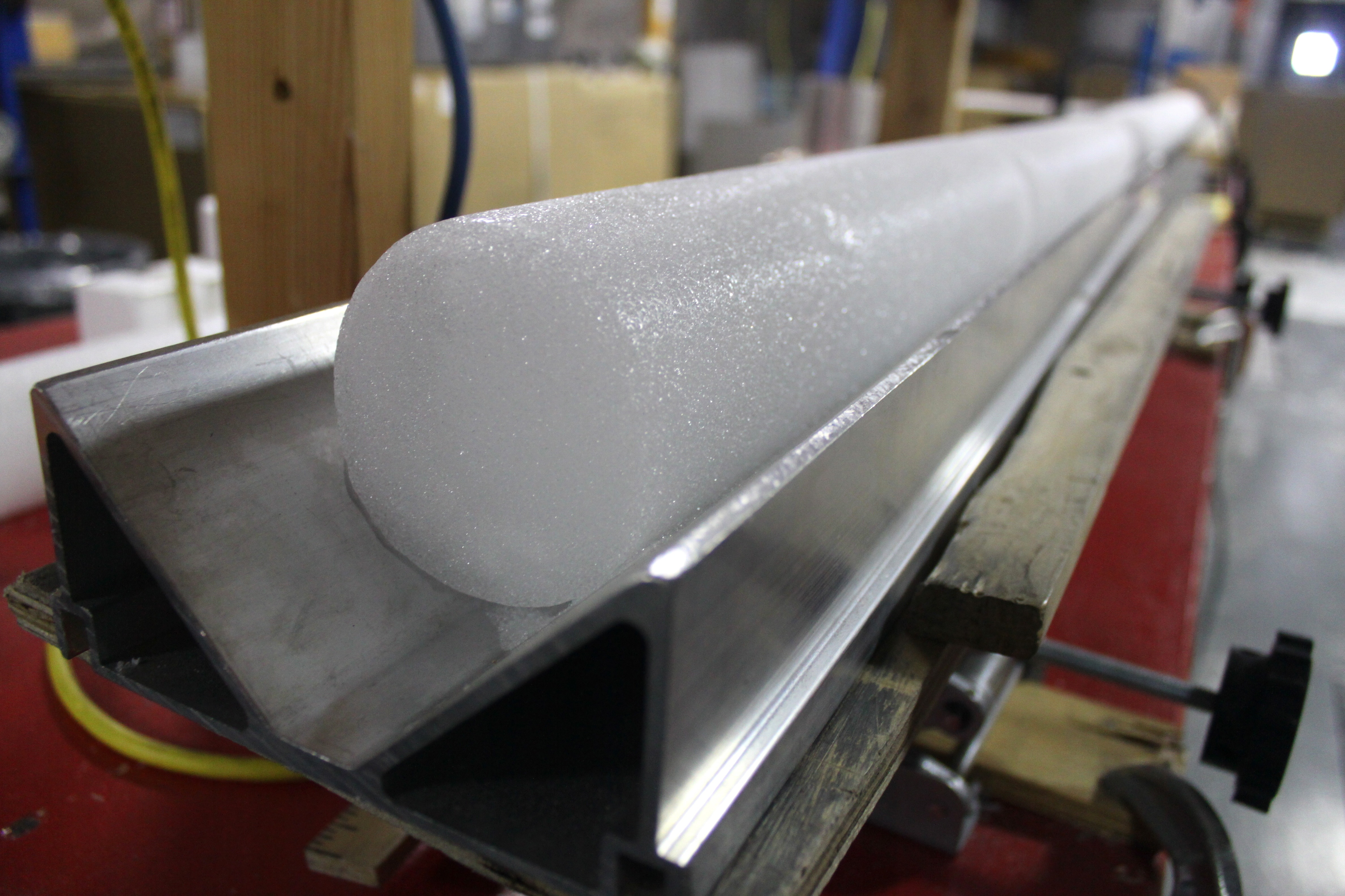 Tour of the Drilling Facility